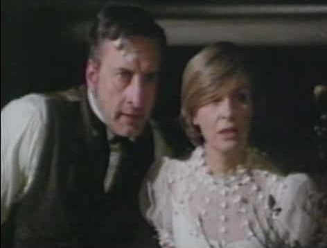 Screenshot of Joanne Woodward and George C. Scott from the trailer for the film They Might Be Giants